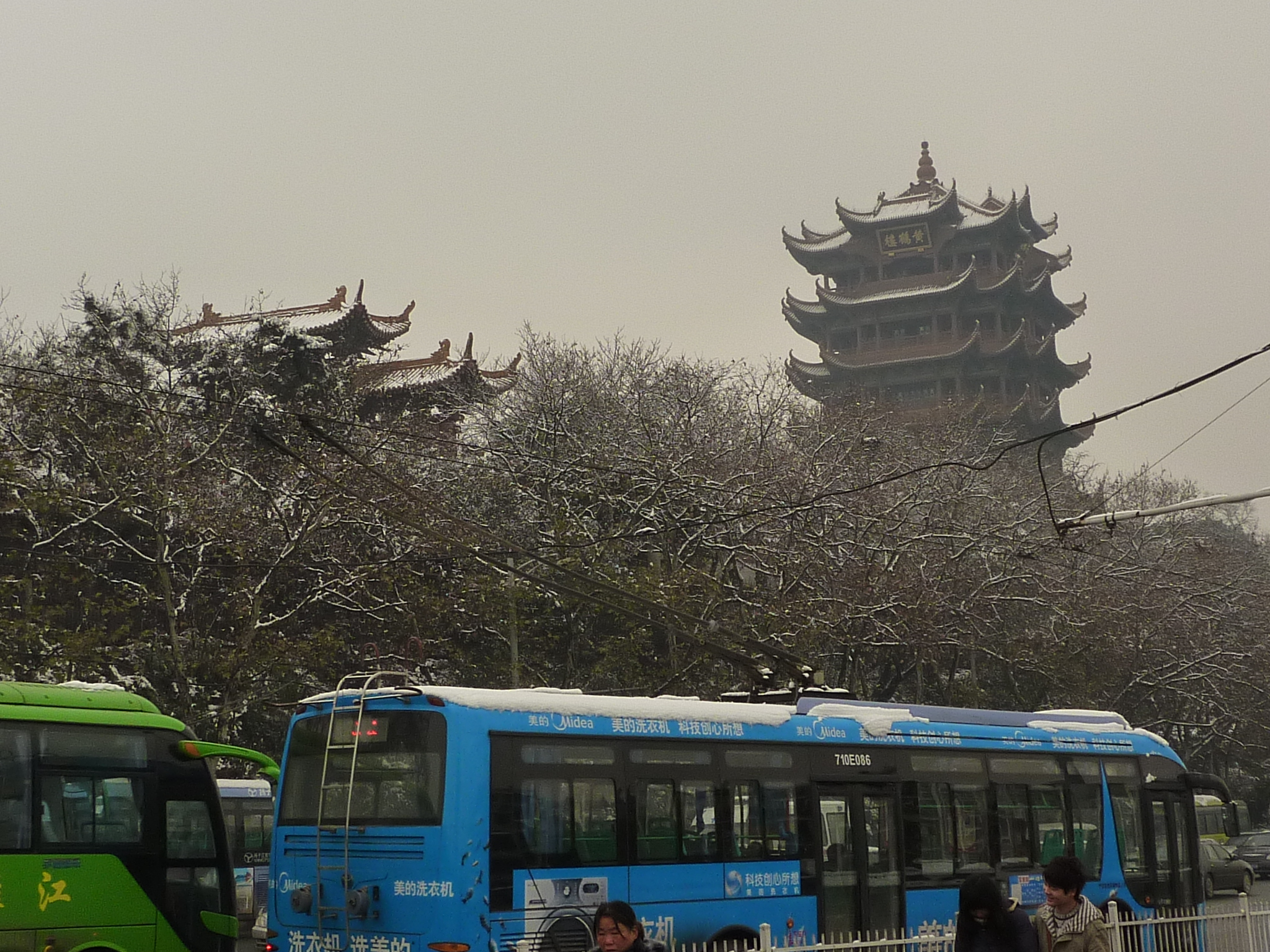 A trolleybus in Wuluo Lu in Wuhan, with the Yellow Crane Tower in the background